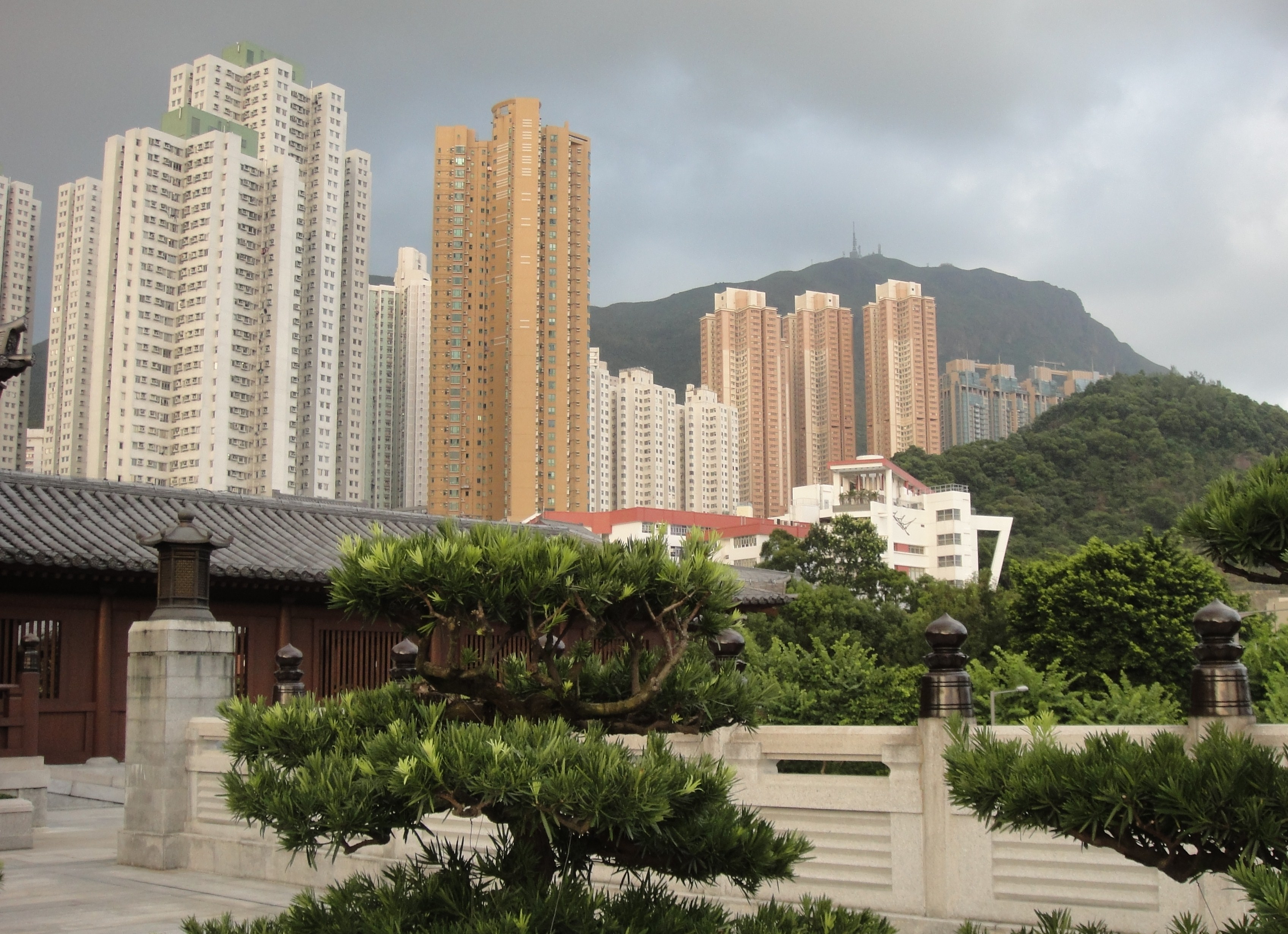 Diamond Hill